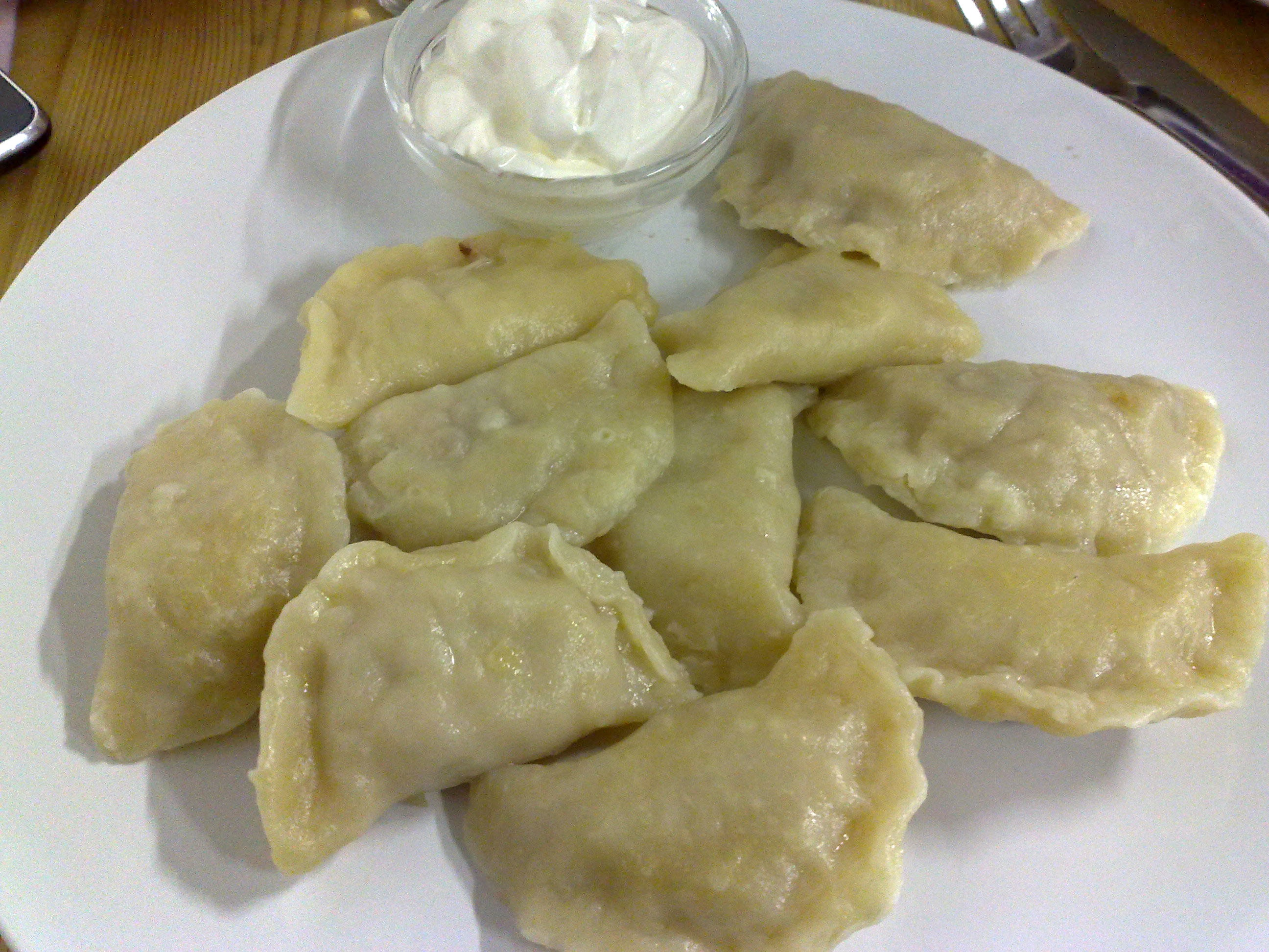 Pierogi in a Polish cafe in London